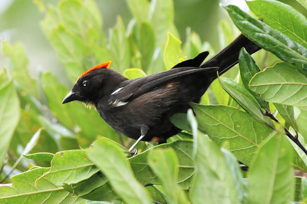 Tachyphonus cristatus, Brazil